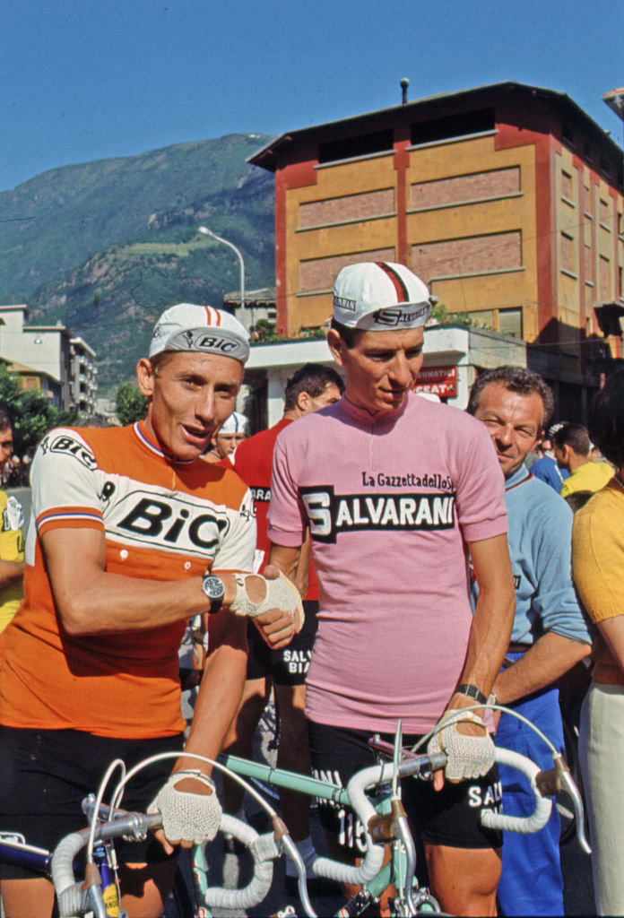 Cyclists Felice Gimondi and Jacques Anquetil shaking their hands at the start of the 22nd stage of the Giro d'Italia Tirano-Milan. Tirano, 11th June 1967